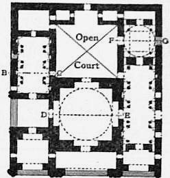 Plan of the Palace of Serbistan. Illustration from 1911 Encyclopædia Britannica, article Architecture.